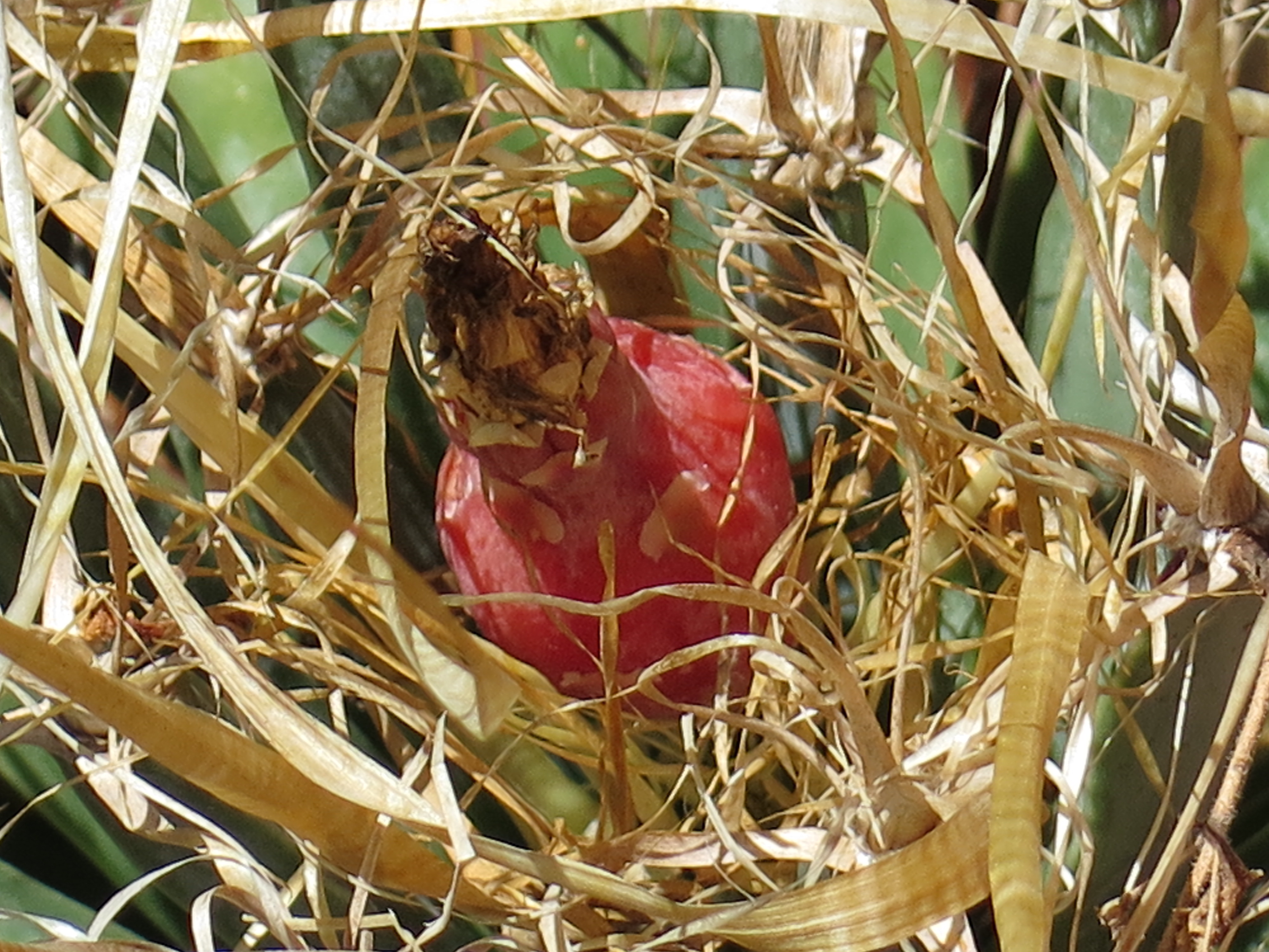 Leuchtenbergia principis fruit